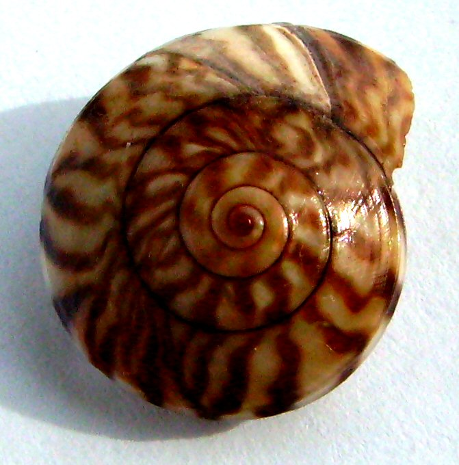 Zethalia zelandica (Hombron & Jacquinot, 1855) (synonym: Umbonium zelandica) from Whangarei Heads, New Zealand. This work has been released into the public domain by its author, Graham Bould. This applies worldwide. In some countries this may not be legally possible; if so: Graham Bould grants anyone the right to use this work for any purpose, without any conditions, unless such conditions are required by law.